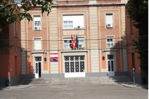 IES RAMIRO DE MAEZTU.MADRID